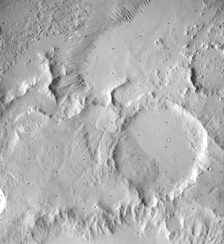 Galdakao crater on Mars. The rim of Gusev crater is at bottom. Viking Orbiter 1 image from camera A (435S05). Clear filter was used for this image. Resolution is about 70 m/pixel. North is in upper left. Emission Angle: 18.6 Incidence Angle: 65.3 Latitude: -12.8 Longitude: 177.1 Phase Angle: 81.1